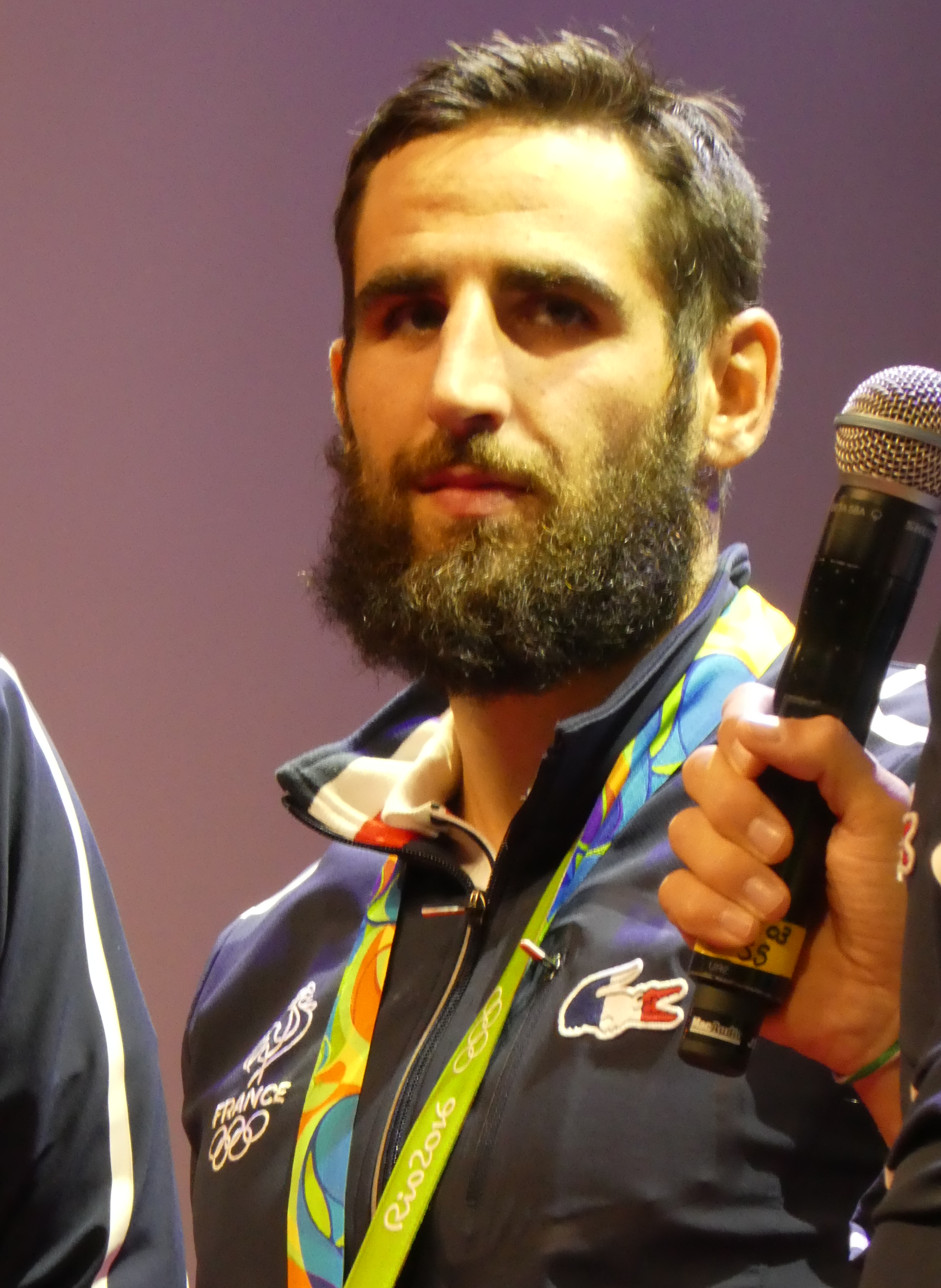 Matthieu Péché bronze medalist at the 2016 Summer Olympics in canoeing